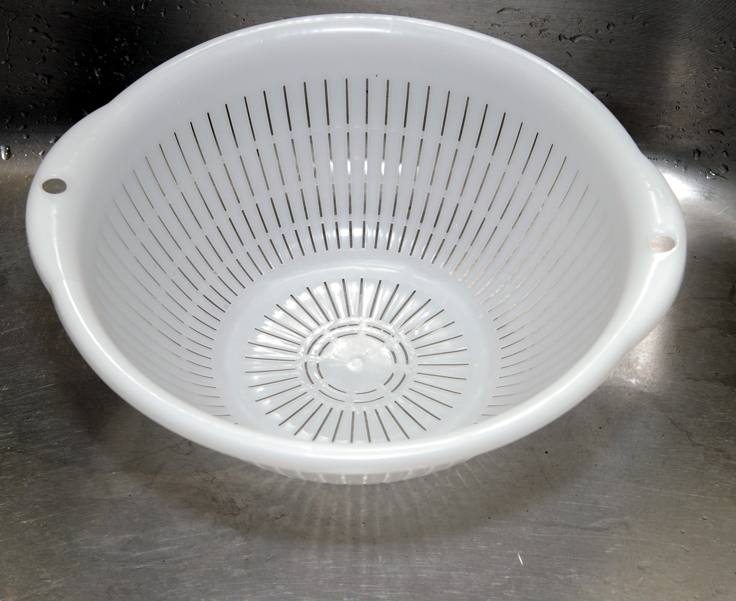 A plastic colander in a stainless kitchen sink.